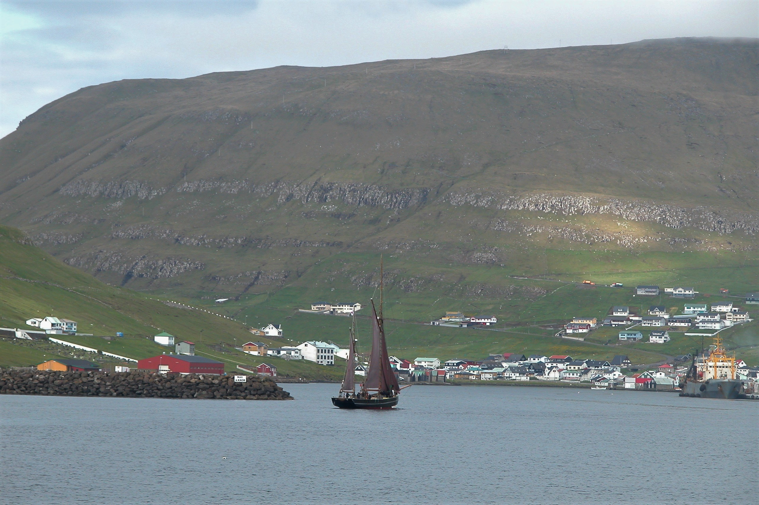 TG 326 Johanna of Vágur, in Port of Vágur, Suðuroy, Faroe Islands